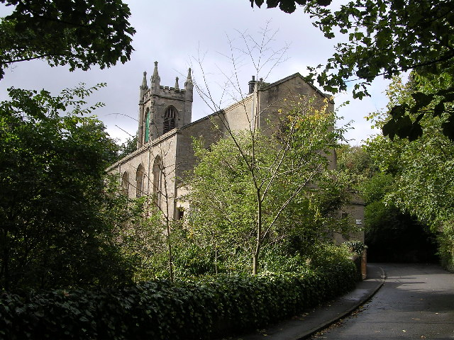 Cadder Original description: Cadder Parish Church Designed by David Hamilton (1768-1843), one of the creators of early 19th century Glasgow, and built in 1825